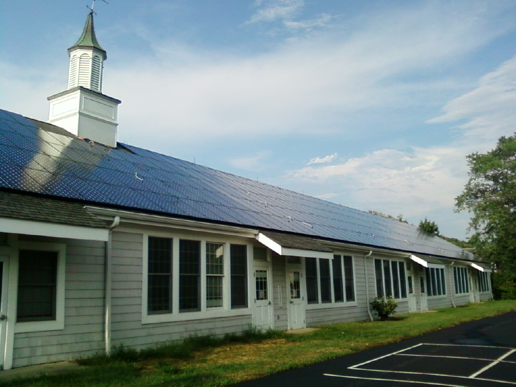 A photo of the main building of Lotspeich, part of the Seven Hills School, showing the almost completed solar panels on the roof. The extraneous wires on the solar panels are only there because, at the time of this photo, the solar panels were not finished being installed yet.